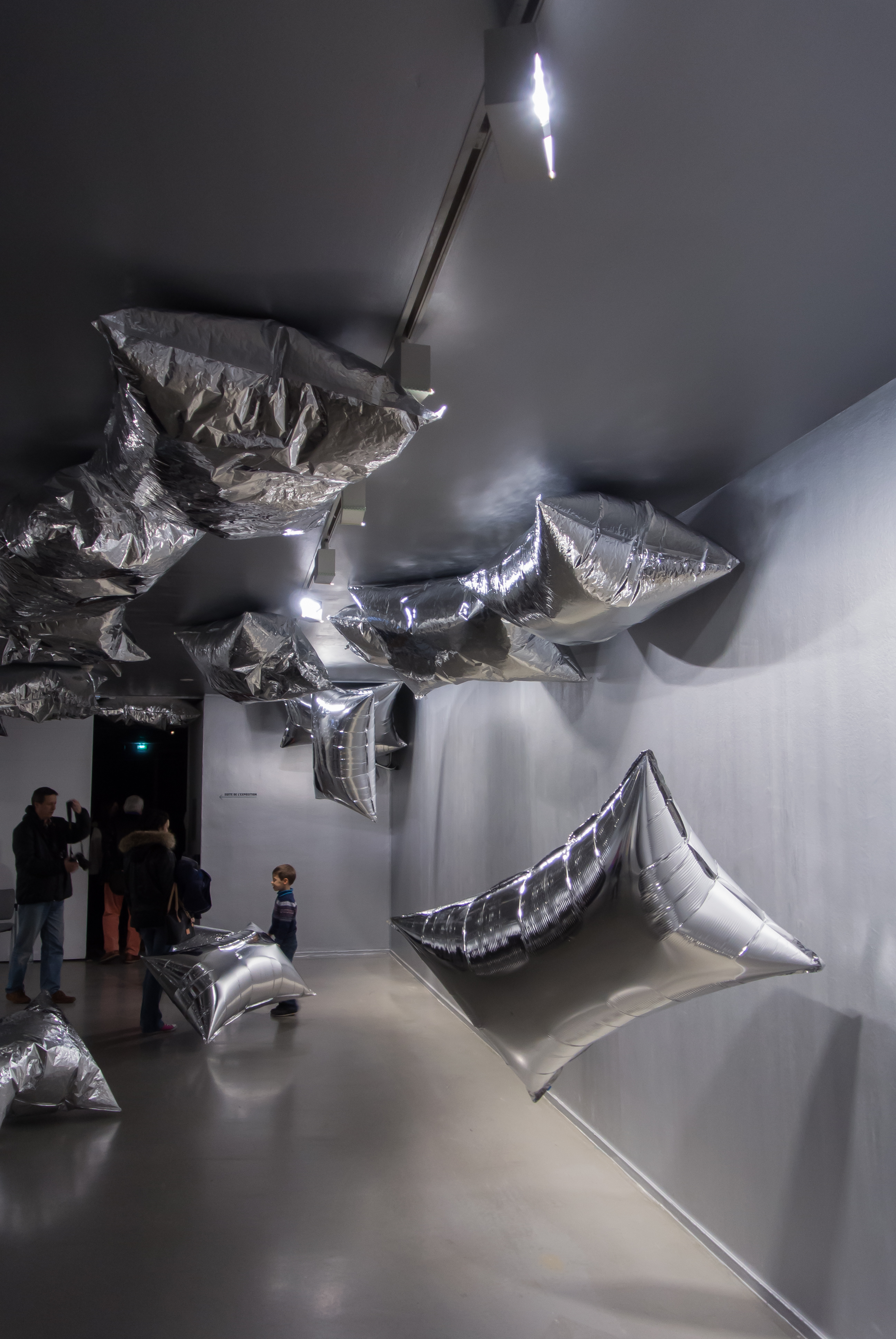 "Silver Clouds" Reproduction at the "musée d'Art Moderne de la ville de Paris"- December 2015 - Warhol Unlimited Exposition